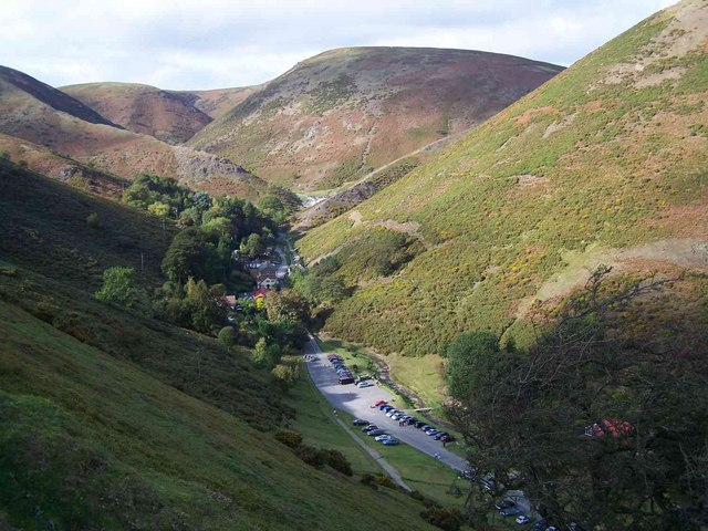 Carding Mill Valley from the Road By Burway Hill